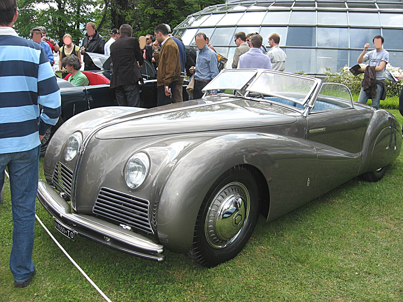 Subject:Alfa Romeo 6C 2500 SS Pininfarina Date:April 27th, 2008 Event:Concorso d’Eleganza”Villa d’Este” 2008 Place/Country: Cernobbio (CO), Italy I release all rights in the public domain.